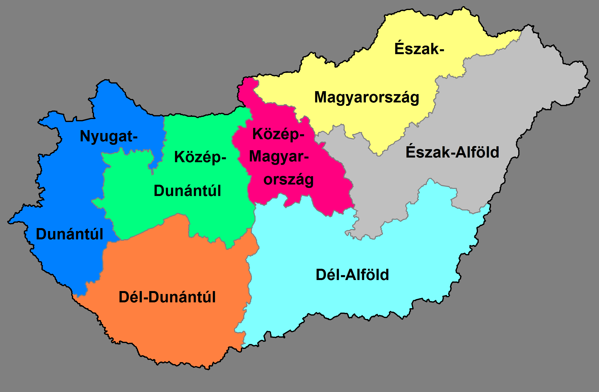 Counties of Hungary (NUTS 2 divisions) in 2007.)